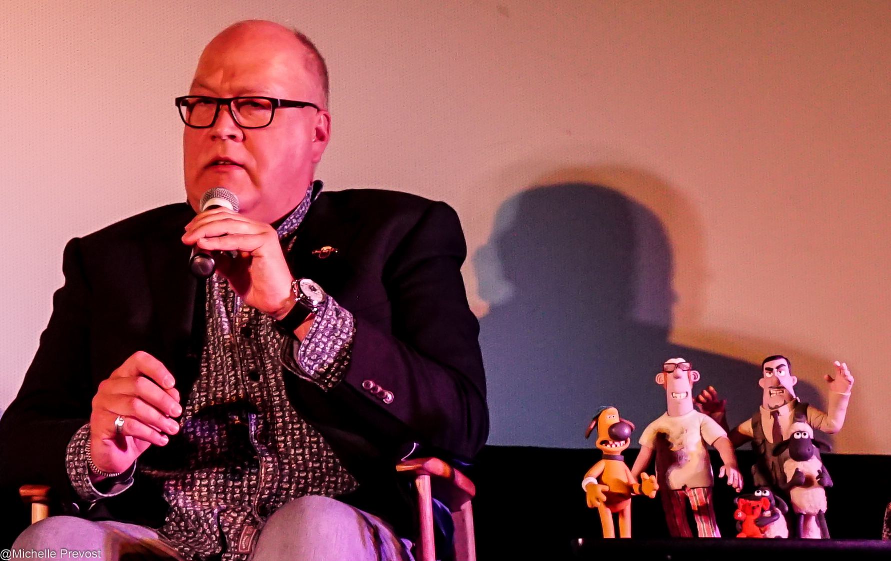 Richard Starzak, co-writer and co-director of Shaun the Sheep Movie, promoting the film at the San Francisco Film Society